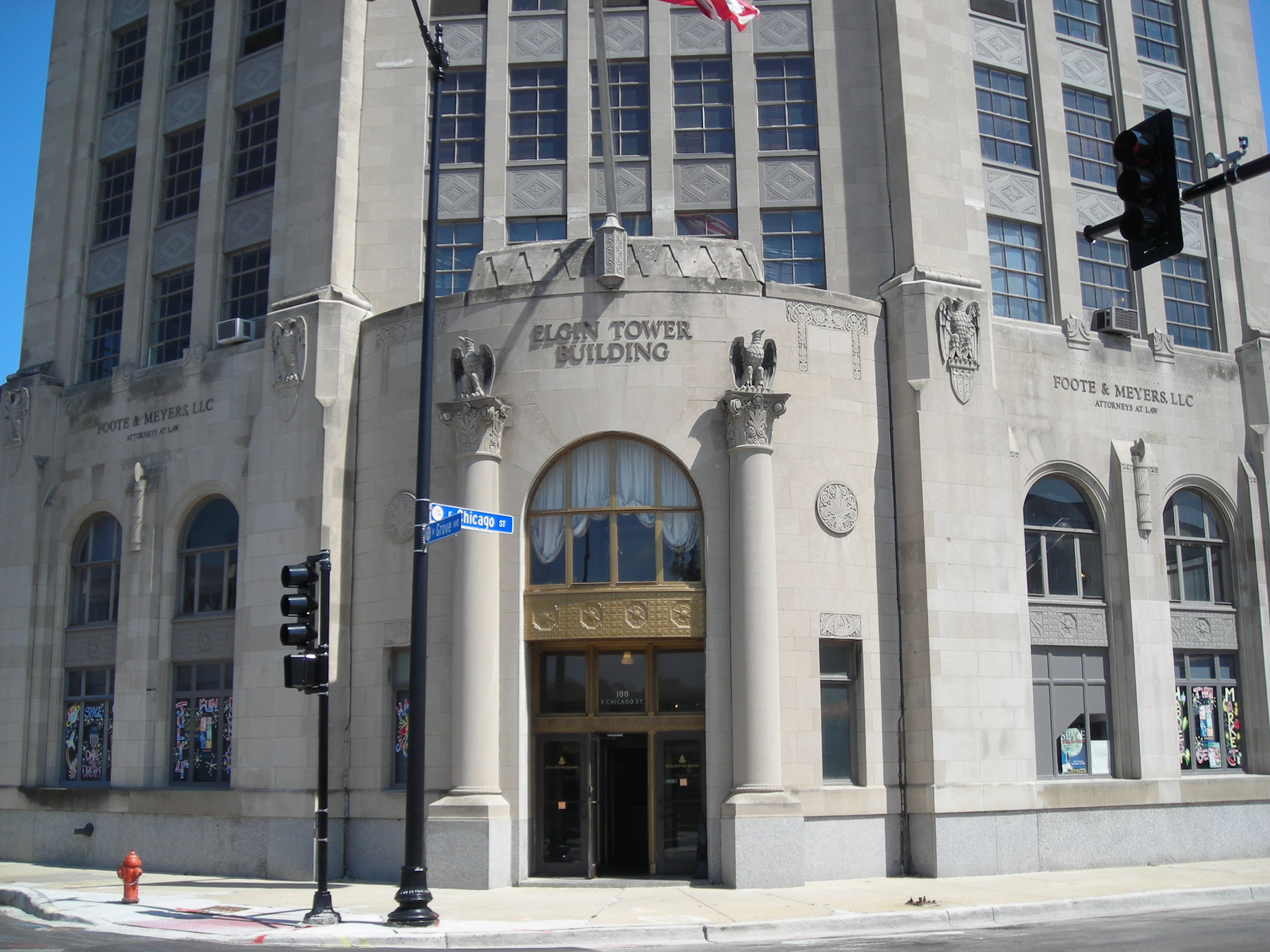 Elgin Tower Building. Elgin, Kane County, Illinois. National Register of Historic Places.